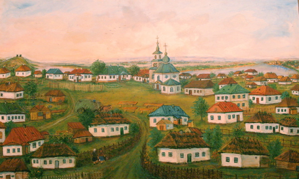 Painting of Trypillia Village, Ukraine